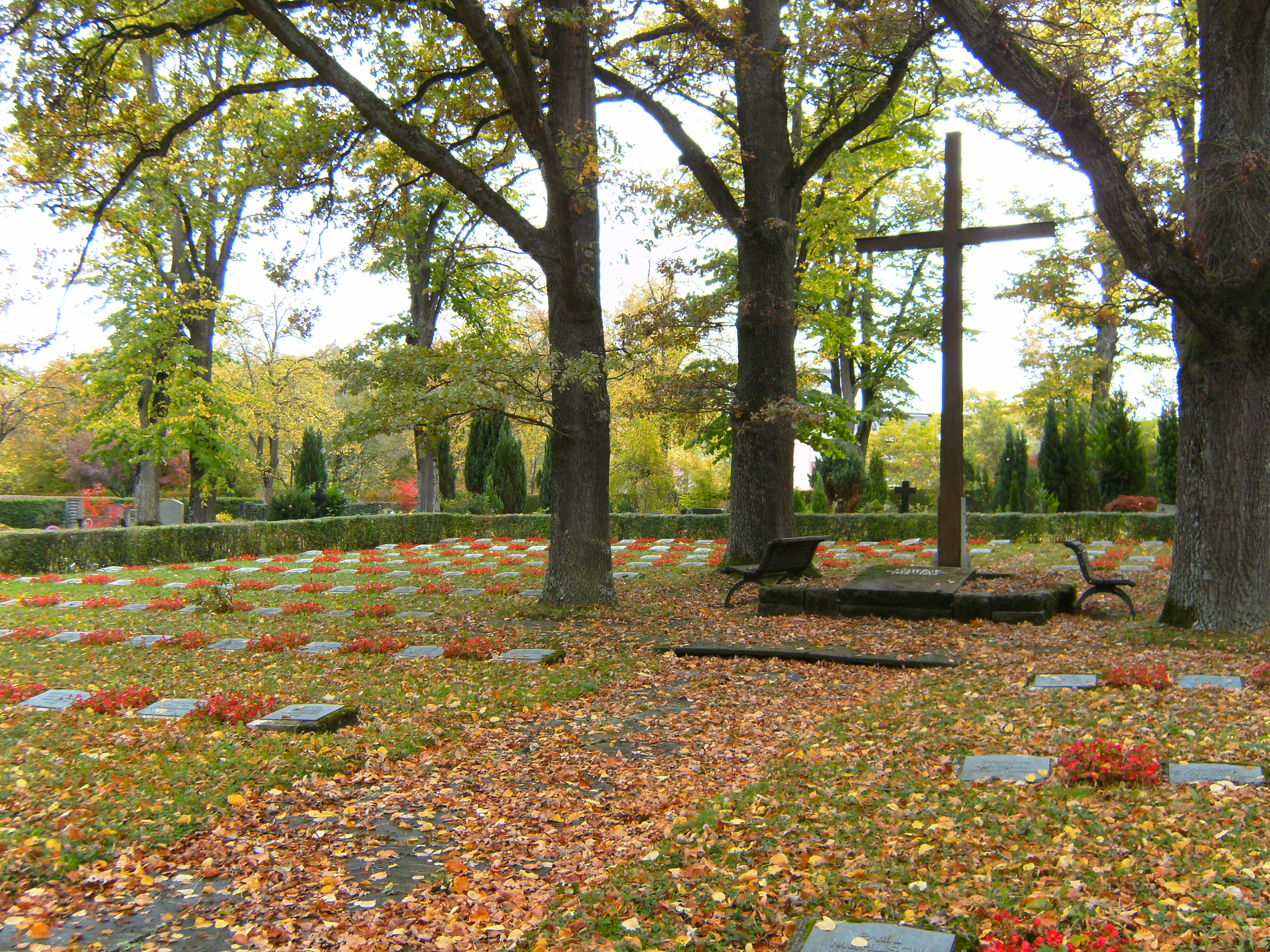 Hauptfriedhof Konstanz, Germany (main cemetery), Riesenbergweg. German military cemetery of World War I in the western middle of the cemetery.